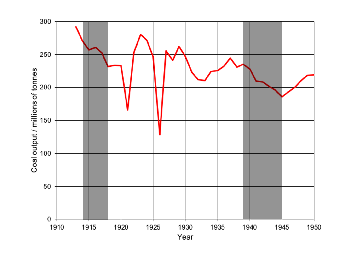 Millions of tonnes of coal produced each year between 1913 and 1950. The periods corresponding to the two world wars are highlighted in grey. Data from: Historical coal data: coal production, availability and consumption. UK Government (25 January 2019).